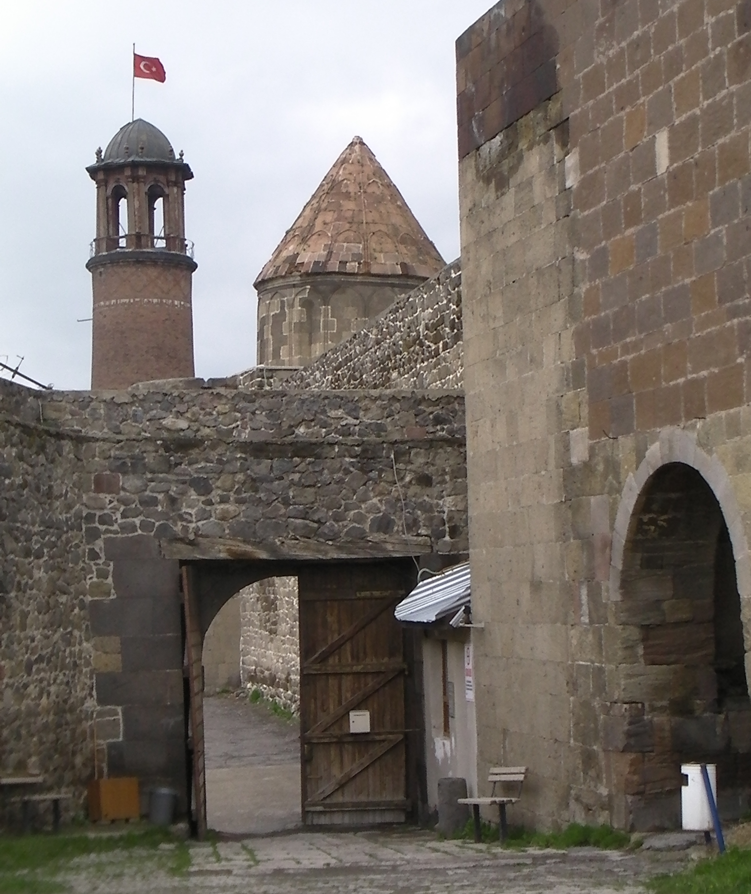 Looking back to the west after entering the area leading to the inner courtyard of the Erzurum Citadel (entrance visible here on the right) in eastern Turkey. Elevation 1926 meters. According to an inscription, the clock tower (Tepsi Minaret) was built by Muzaffer Gazi (1124-1132).